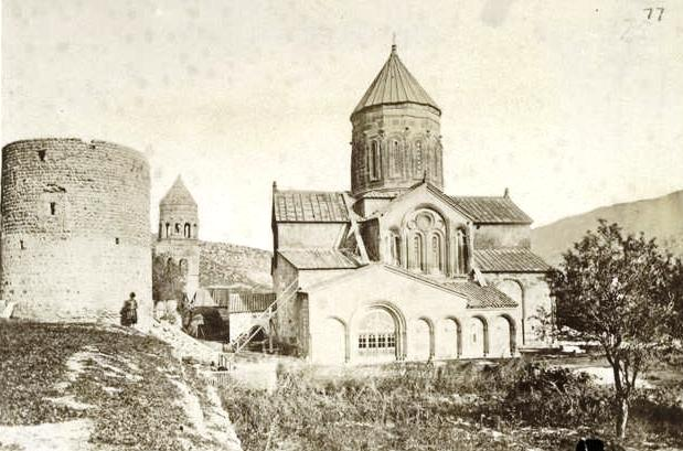 Image Title: Voenno-Gruzinskaia doroga. Mtskhet Monastyr… Alternate Title: Georgian Military Road; Monastery in Mtskheta